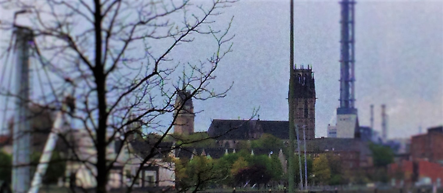 Burgplatz in Duisburg (Germany) viewed from city harbour